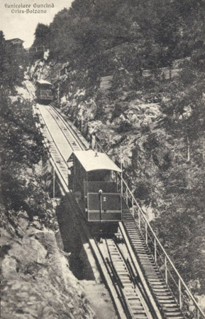 Abt switch of the Guncina funicular in Bolzano, Italy, with two cars about to pass each other